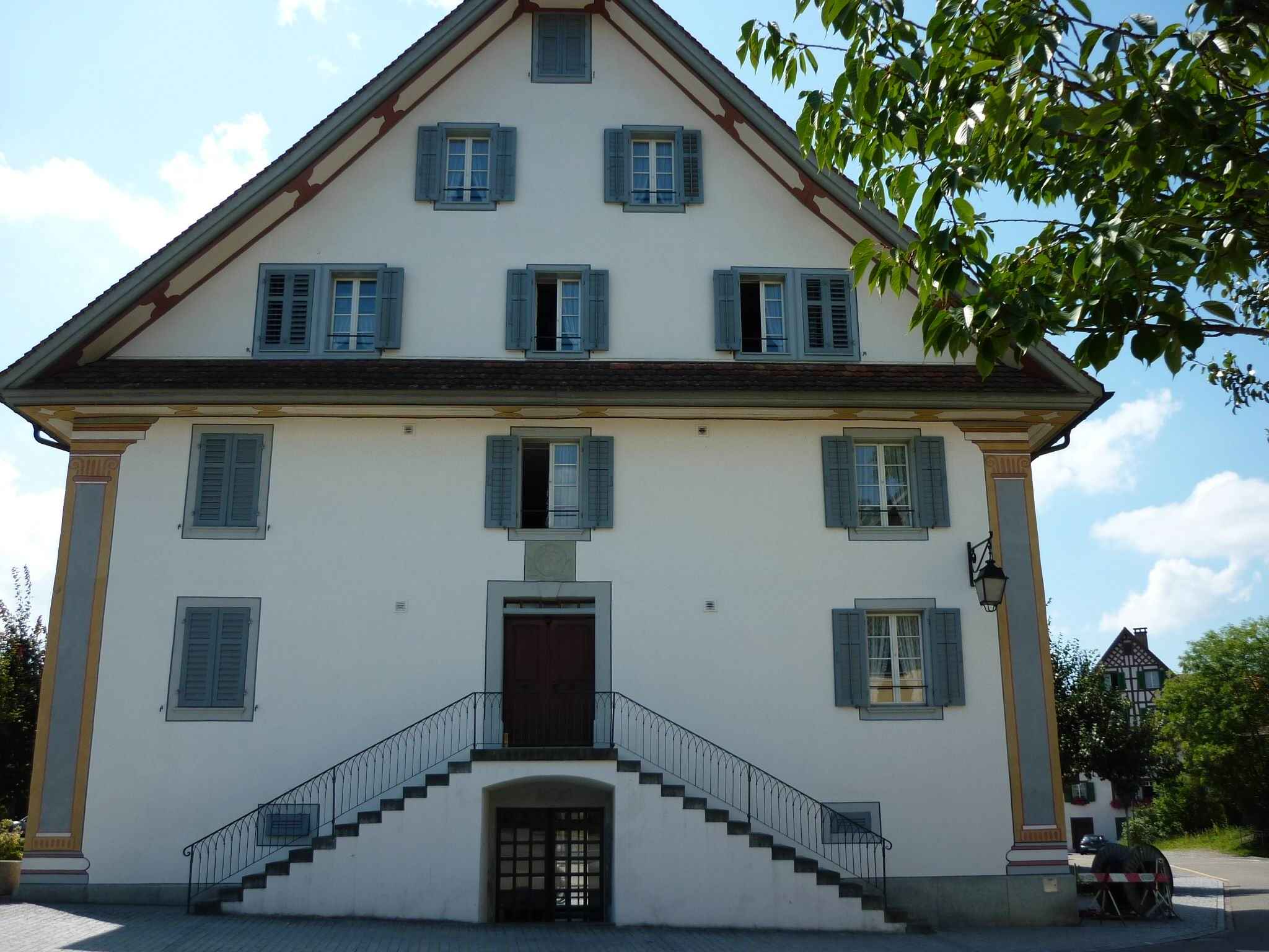 Jonen AG, Switzerland